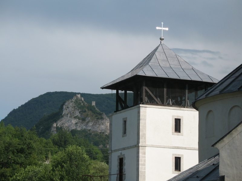 Mileševac fortress with bell tower, view from Mileševa Monastery,near Prijepolje, Serbia.